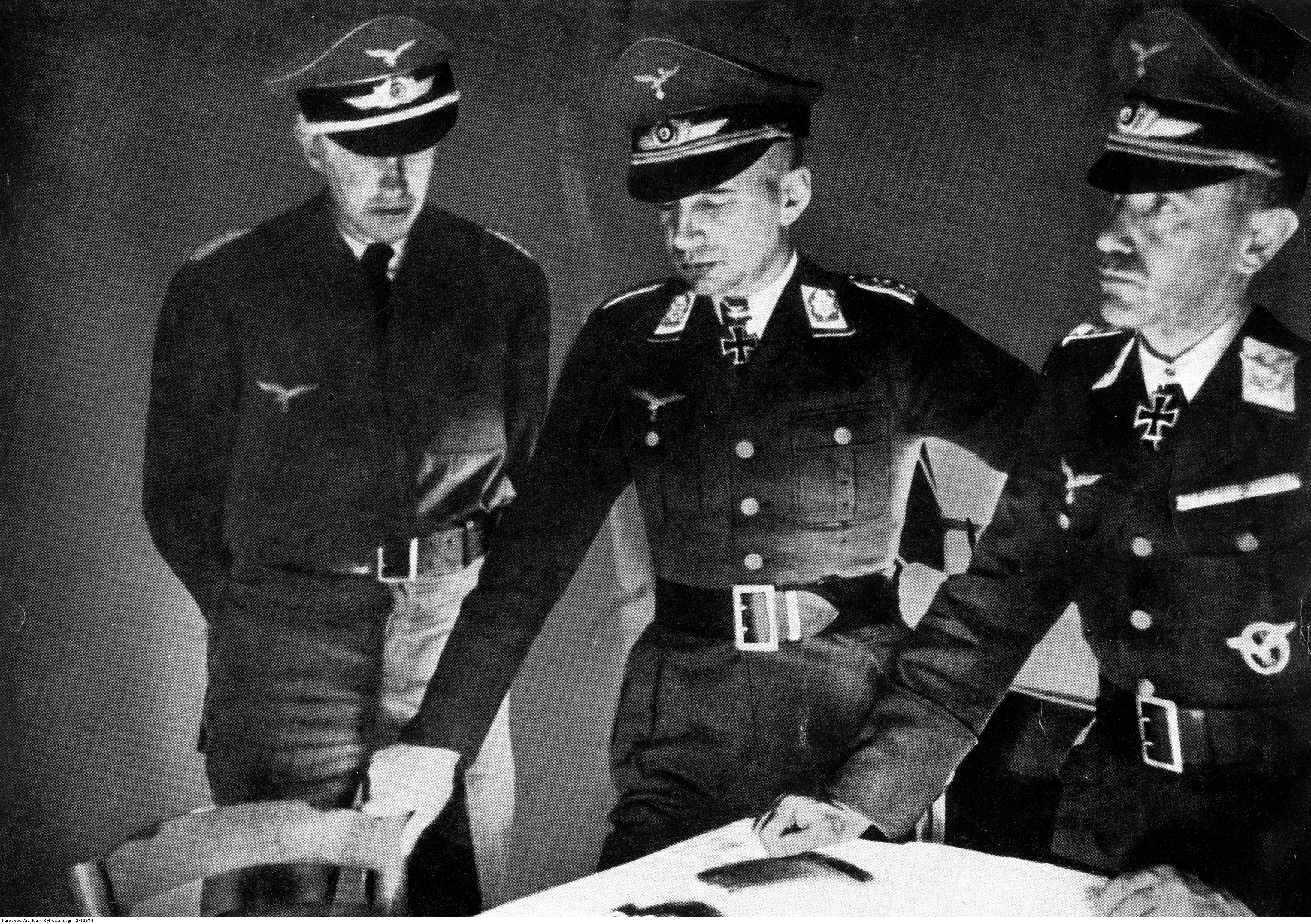 General Colonel Hans Jeschonnek (centre) and General Colonel Alexander Löhr (right) while discussing the operation.